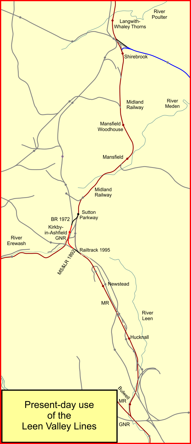 System map of the former Leen Valley liens of the Great Northern Railway in Nottinghamshire, England, showing usage in the present-day Robin Hood Line